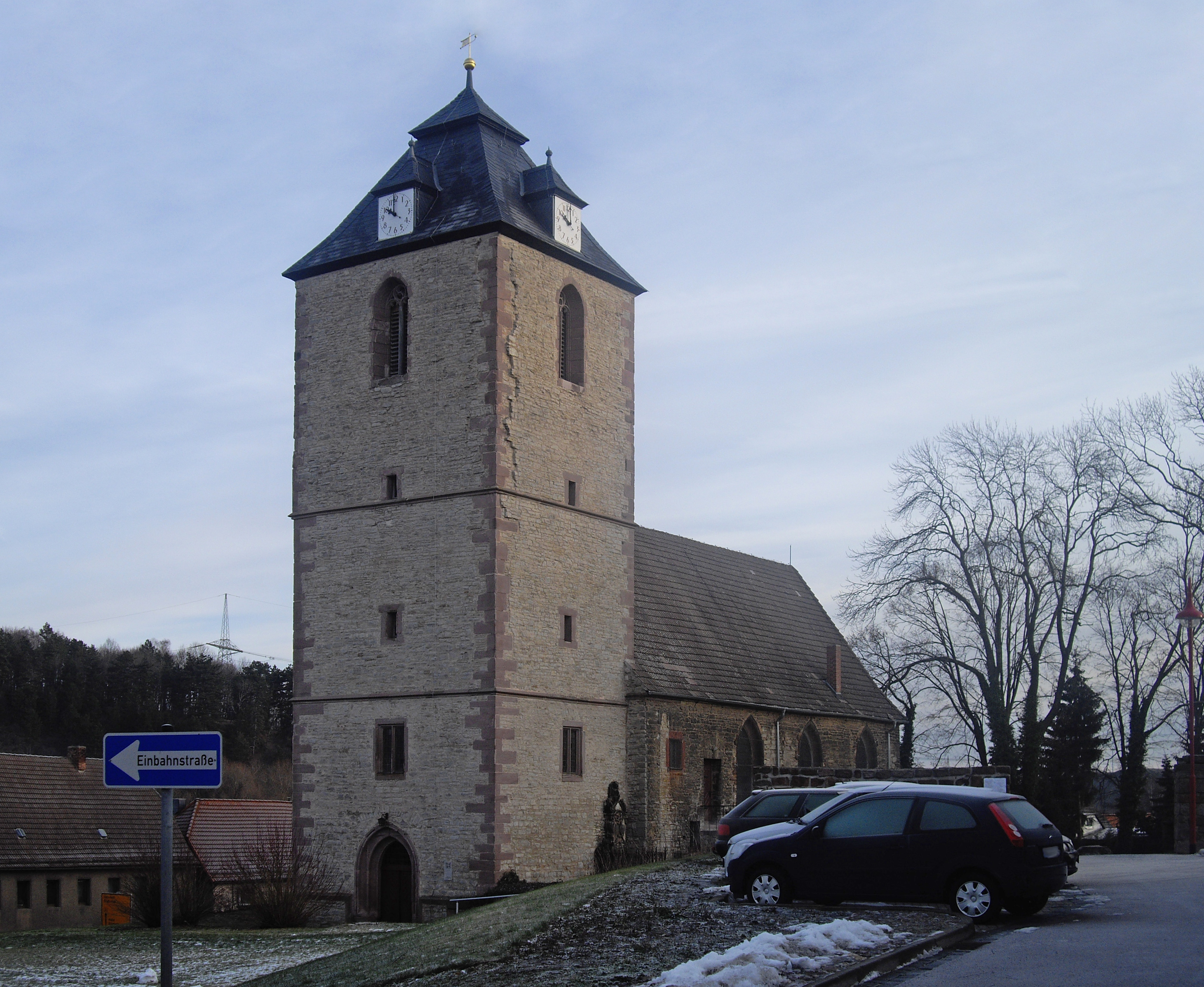 the church St.Peter&Paul in Leimbach (Mansfeld)